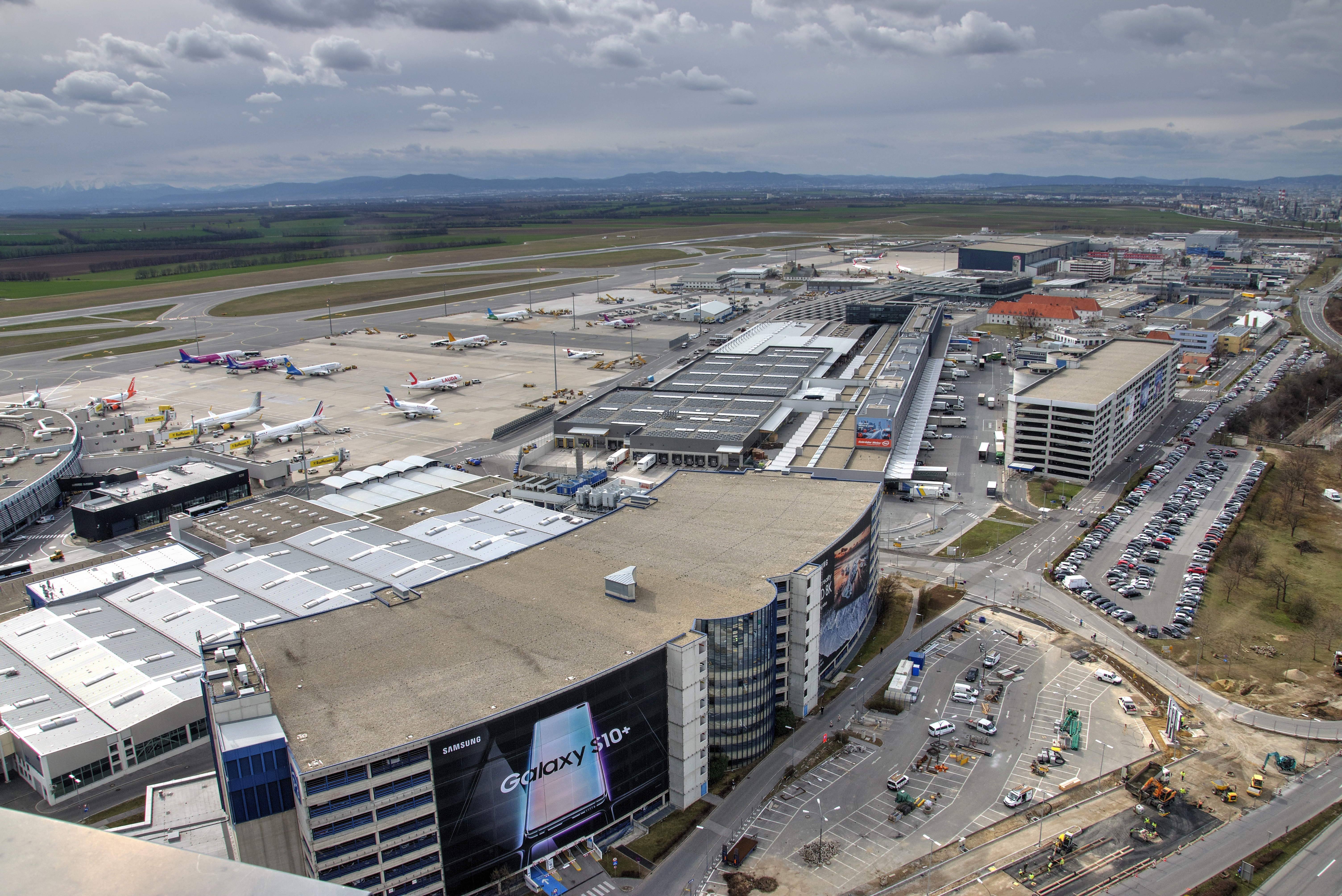 Vienna International Airport from the Air Traffic Control Tower